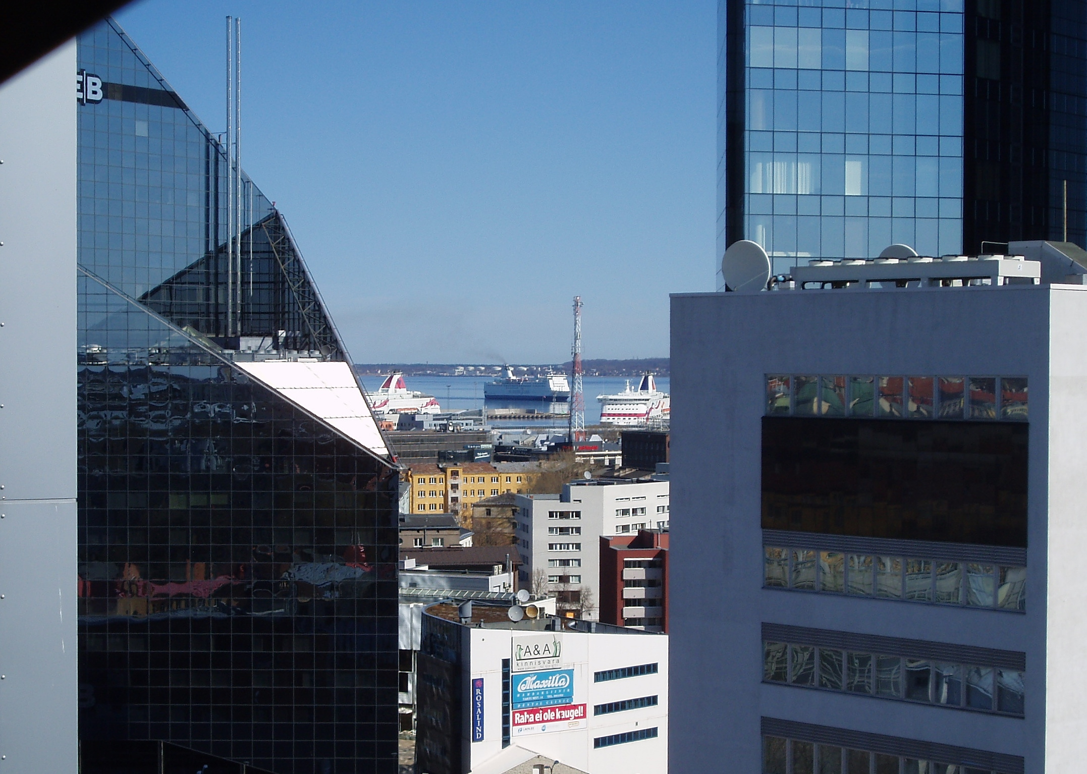 SPL Princess Anastasia arriving in Tallinn (ferries Baltic Princess and Baltic Queen)